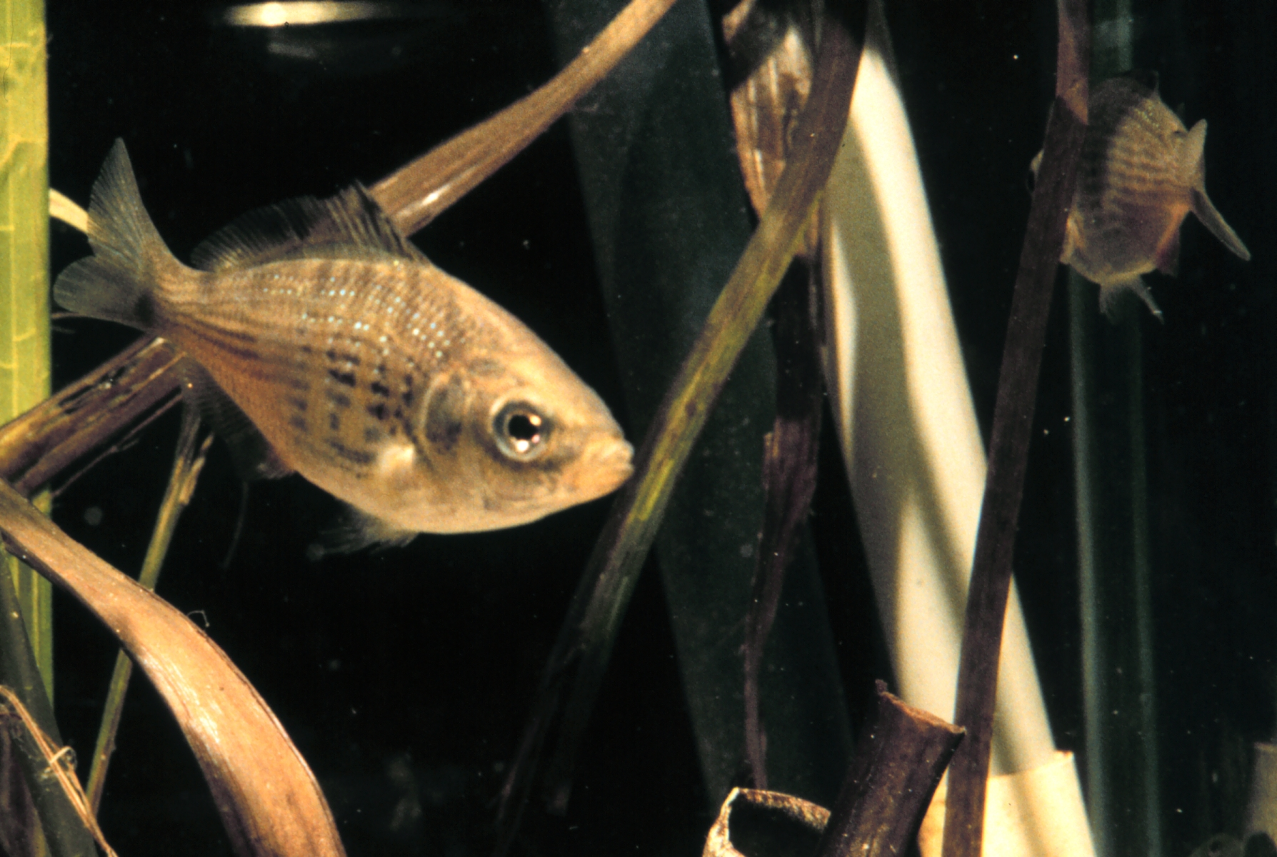 The Shiner Perch, Cymtogaster aggregata (Syn. Cymatogaster aggregata), is found in shallow waters during summer months and in waters up to 146 meters in the winter. Body length is up to 21 cm with females growing larger than males. The body is bright silver with broken longitudinal dark stripes separated by three vertical yellow bars Image ID: nerr0809, NOAA's Estuarine Research Reserve Collection Location: North Puget Sound, Anacortes, Washington